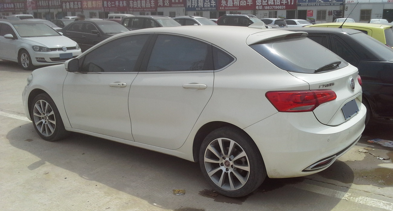 Fiat Ottimo photographed in Zhengzhou, Henan province, China.